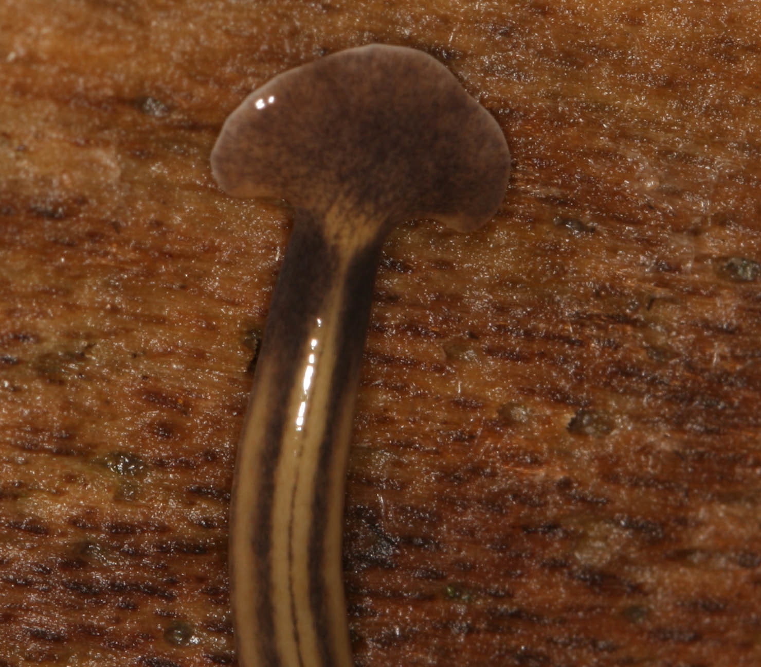 Anterior region of a specimen of Bipalium kewense found in Hawaii Volcanoes National Park, Hawaii.